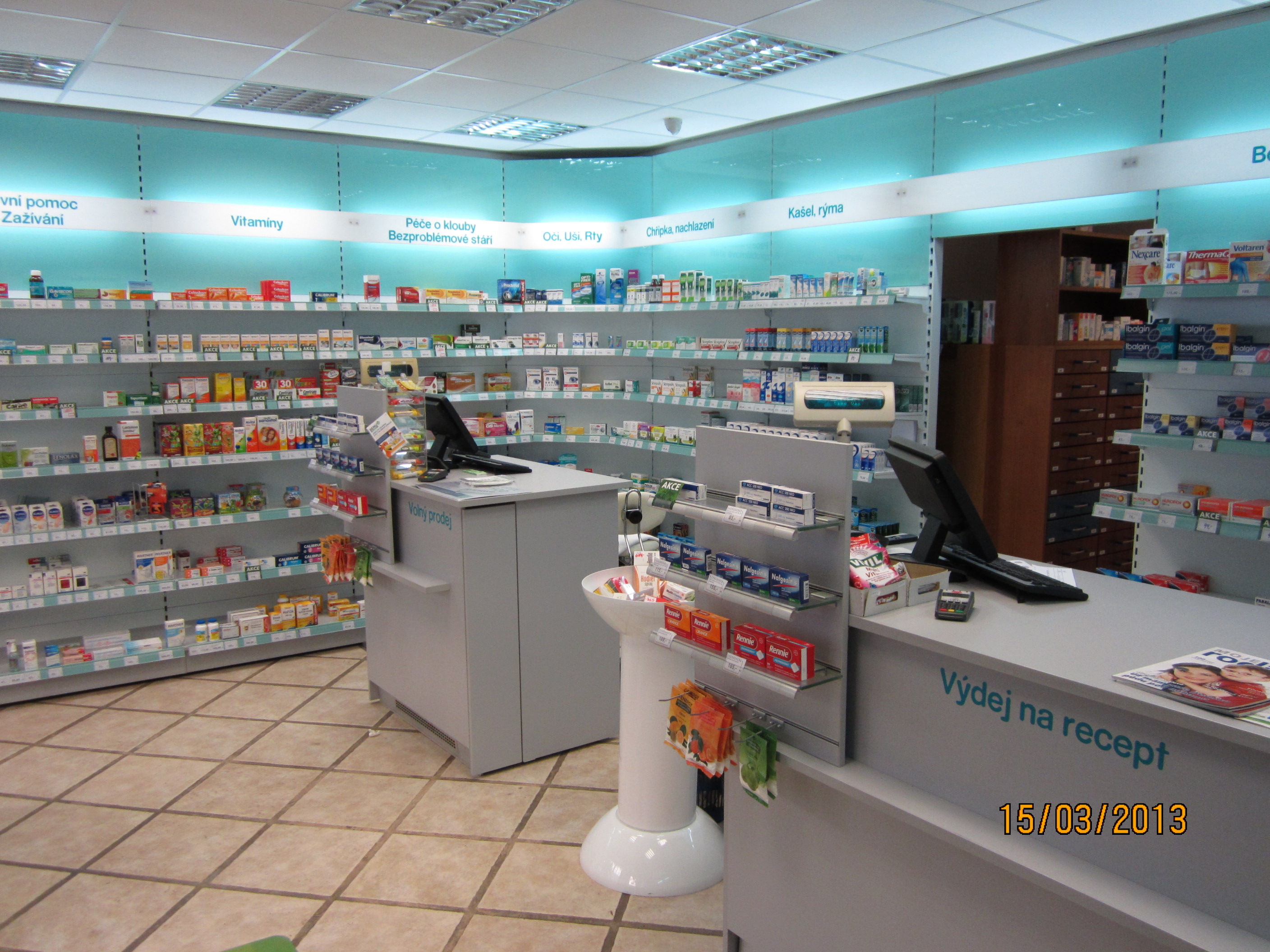 Pharmacy in Prague Dlouhá st.